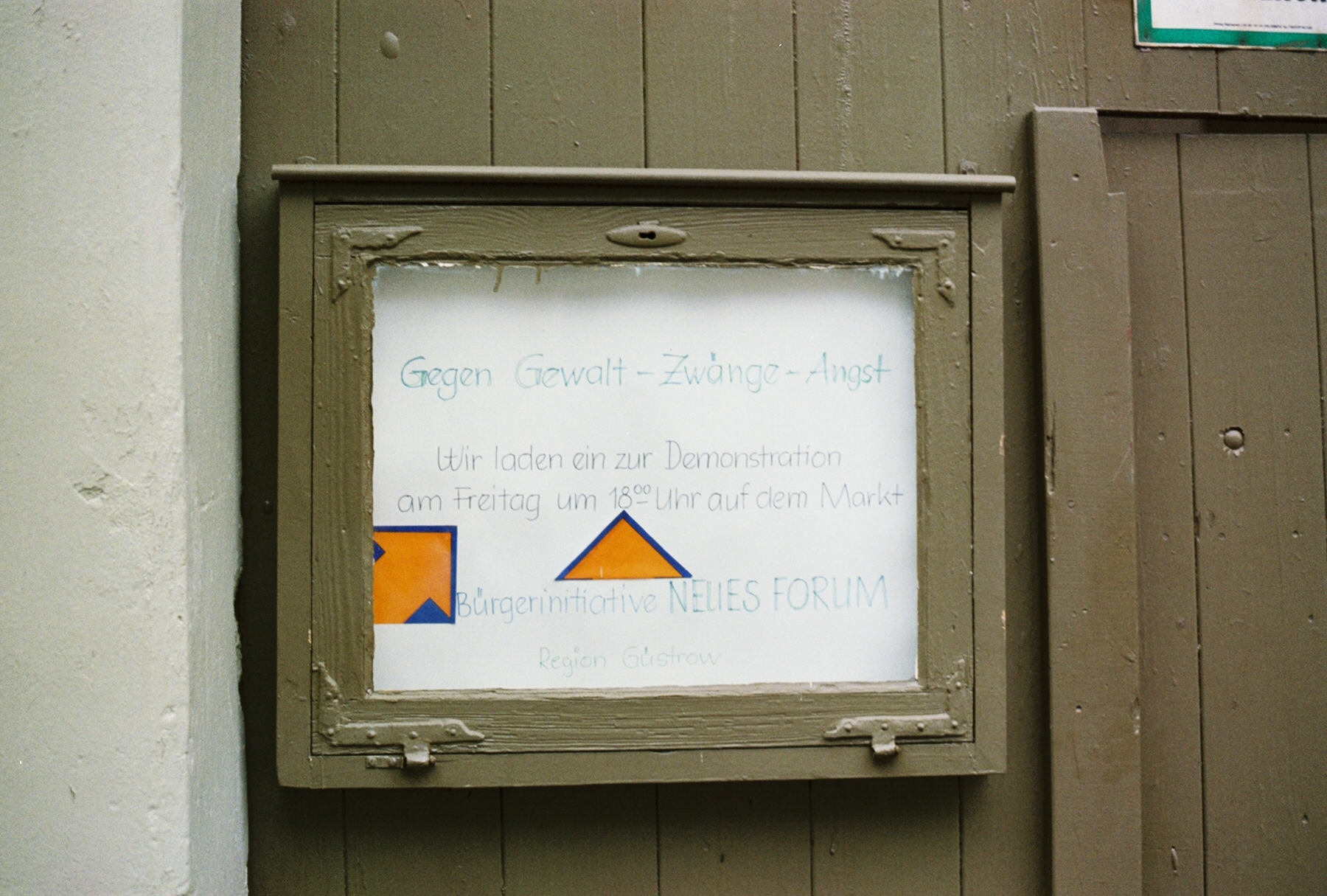 poster for a Neues Forum demonstration in Güstrow, November 1, 1989